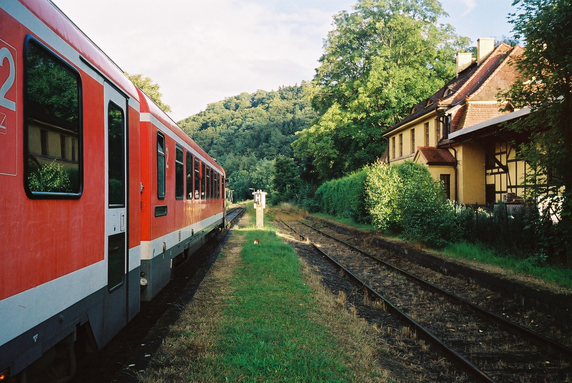 Extra train for weekend tourism at Battenberg train station (Hesse, Germany), the former railway line between Frankenberg (Eder) and Bad Berleburg